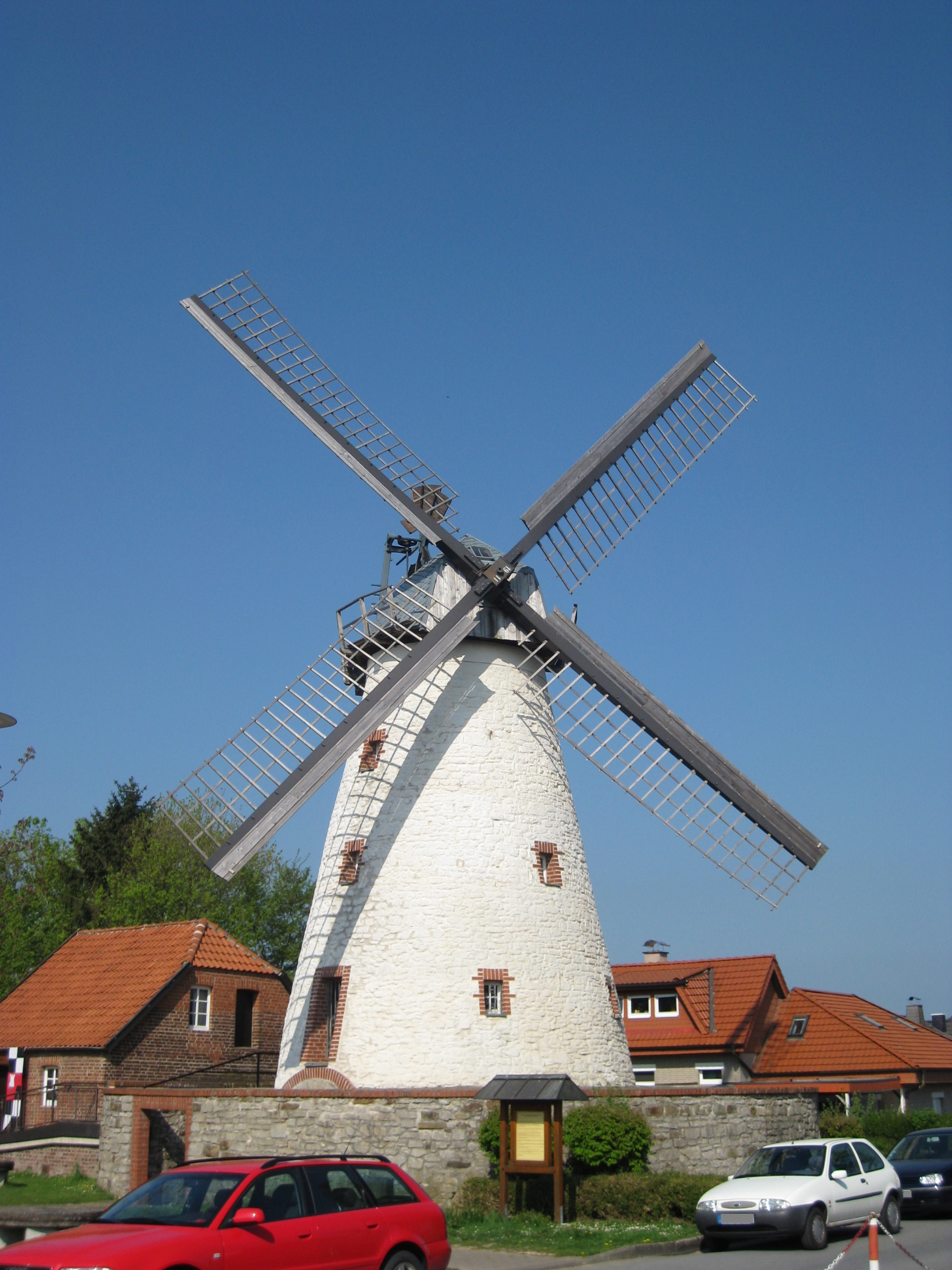 Windmill in Spenge-Hücker-Aschen, built in 1861